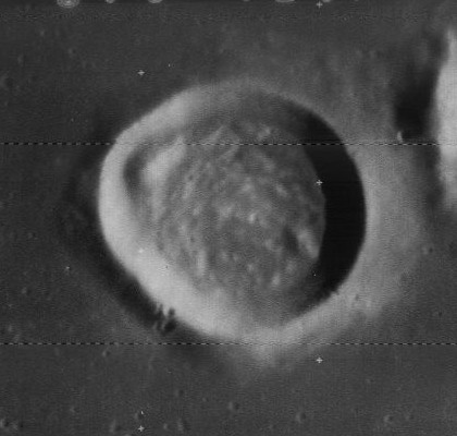 Guericke B crater, south of Guericke, on the moon.